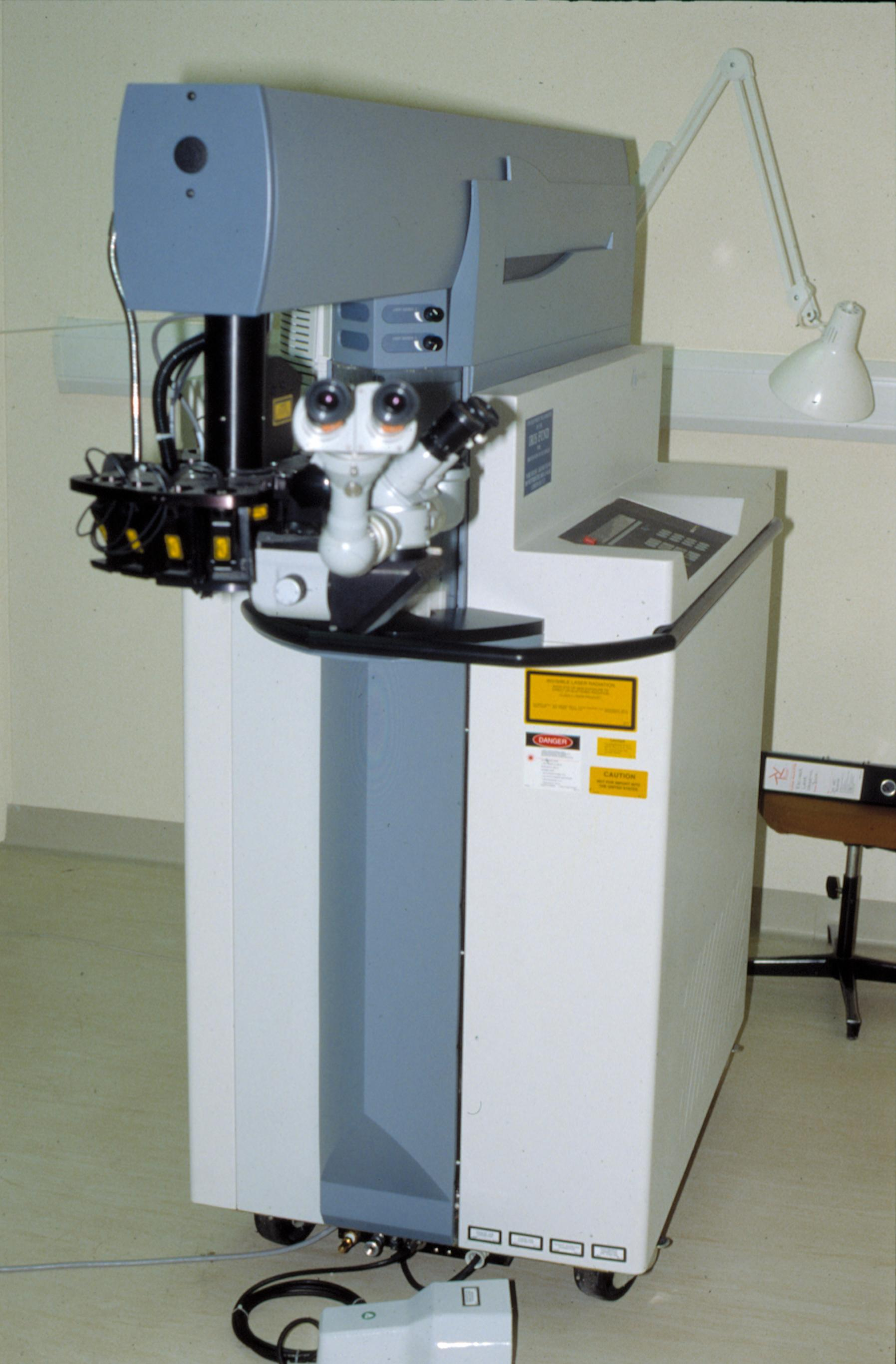 Summit Technology Inc (Boston) Excmer laser 1988